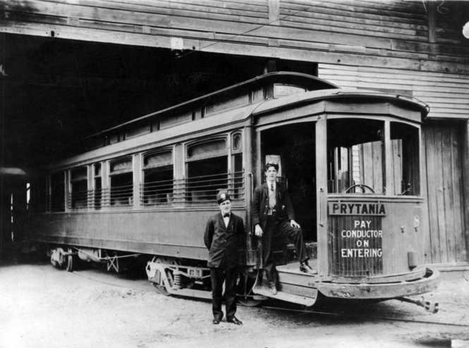 New Orleans Public Service's Prytania streetcar line, 1907. Two uniformed men stand by entrance, presumably the motorman and the conductor. Streetcar is at a carbarn.